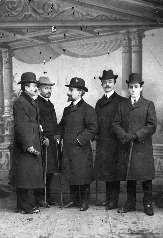 Commemorative photograph of Greek Macedonian officials of the Consulate in Monastir (modern Bitola). From left to right: N. Kontogouris, P. Sarros, V. Agorastos, Y. Honaios, and S. Polihroniadis. All of them dressed in formal attire posing indoors in an urban photograph.